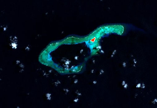 West Fayu Atoll, Caroline Islands, Pacific Ocean